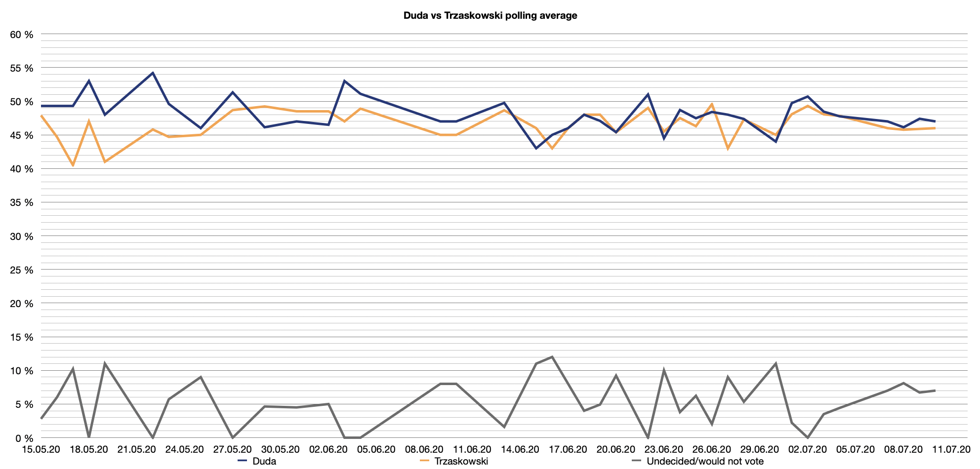 Duda vs Trzaskowski polls average